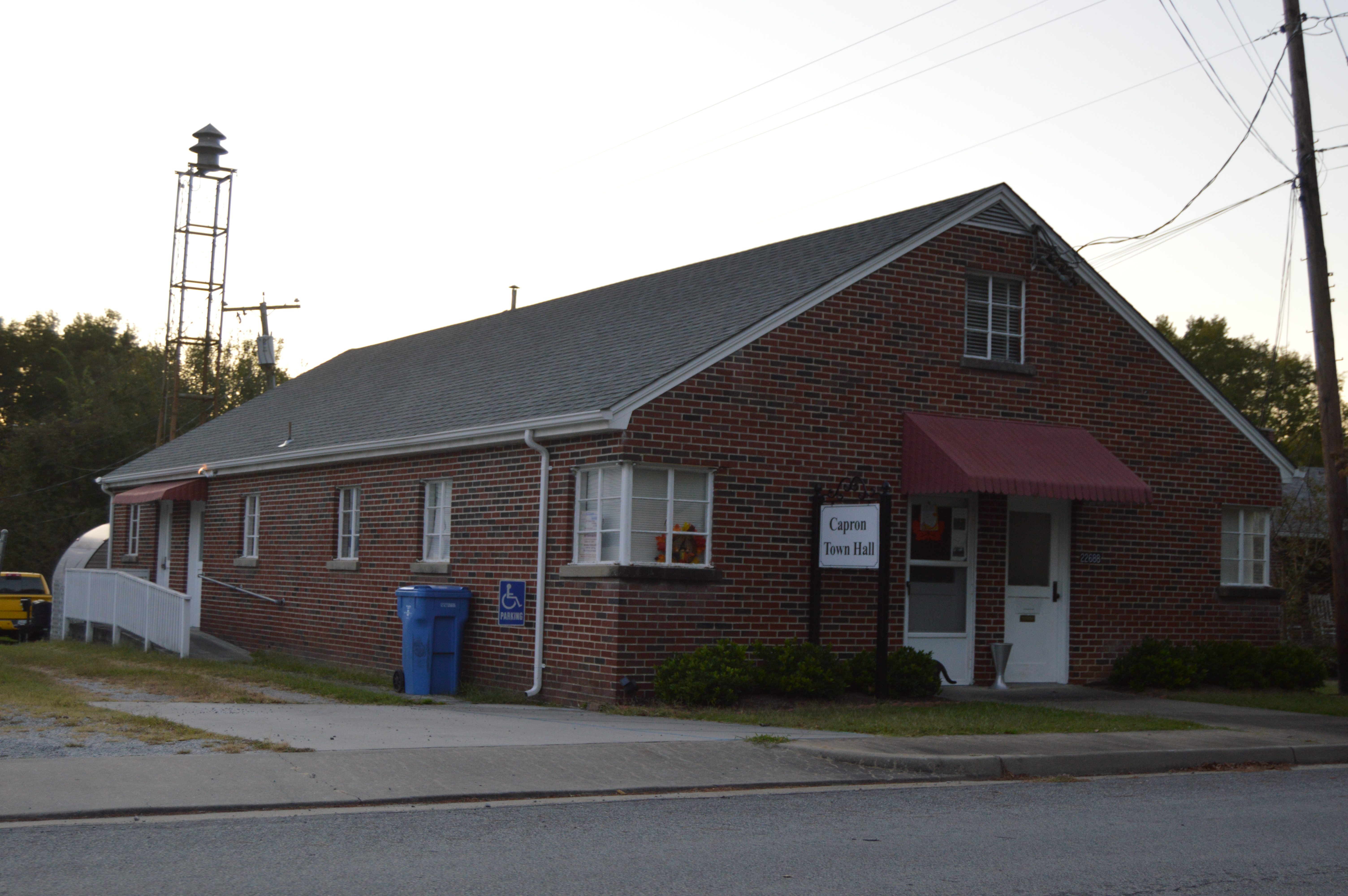 Front and southern side of the Capron town hall, located on Main Street north of the railroad line in Capron, Virginia, United States.